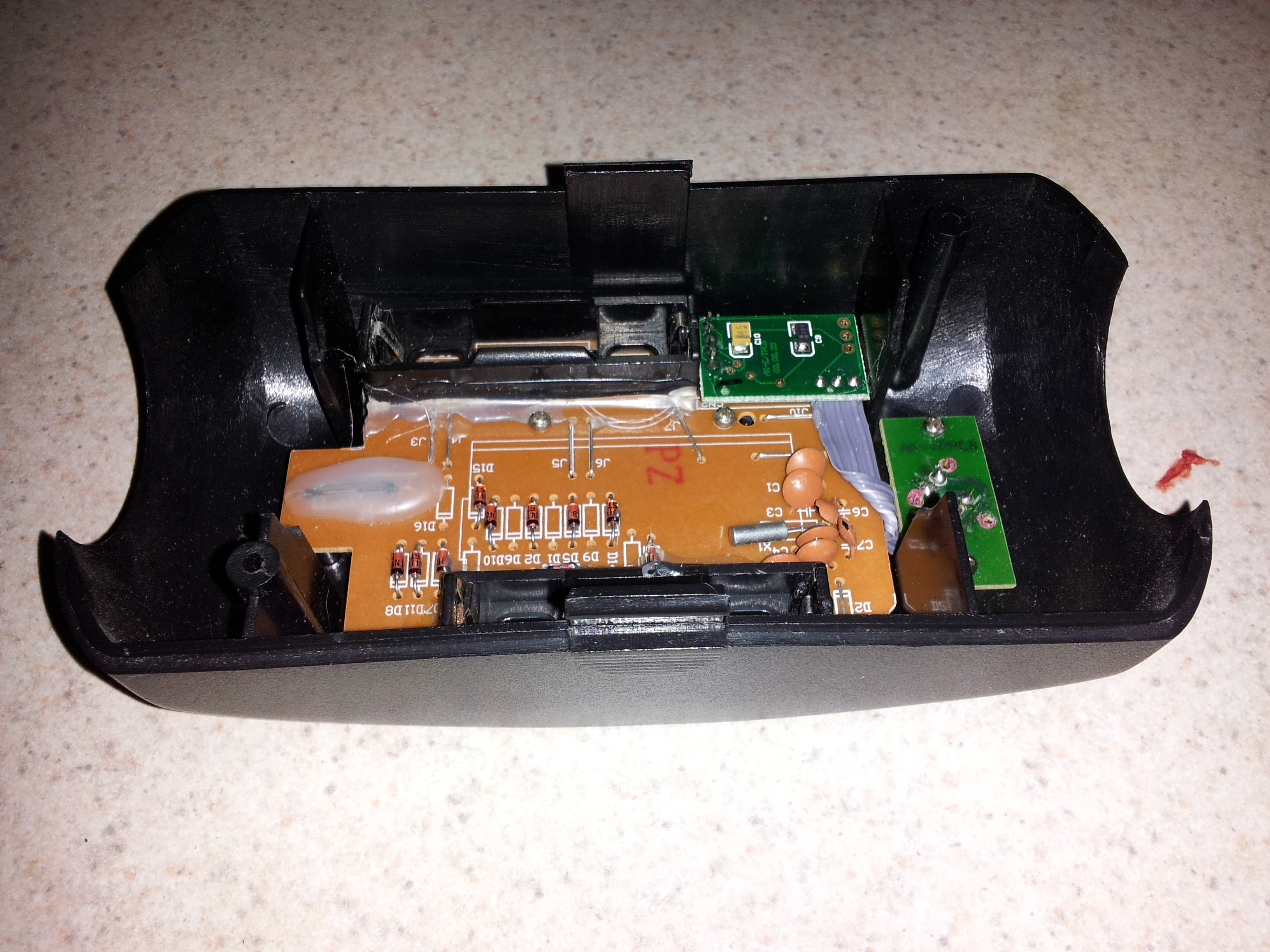 electrical circuit